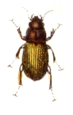 Amara fulva, from Calwer's Käferbuch, Table 6, Picture 13. Taxonomy was updated to 2008, using mostly the sites Fauna Europaea and BioLib. Please contact Sarefo if the determination is wrong!